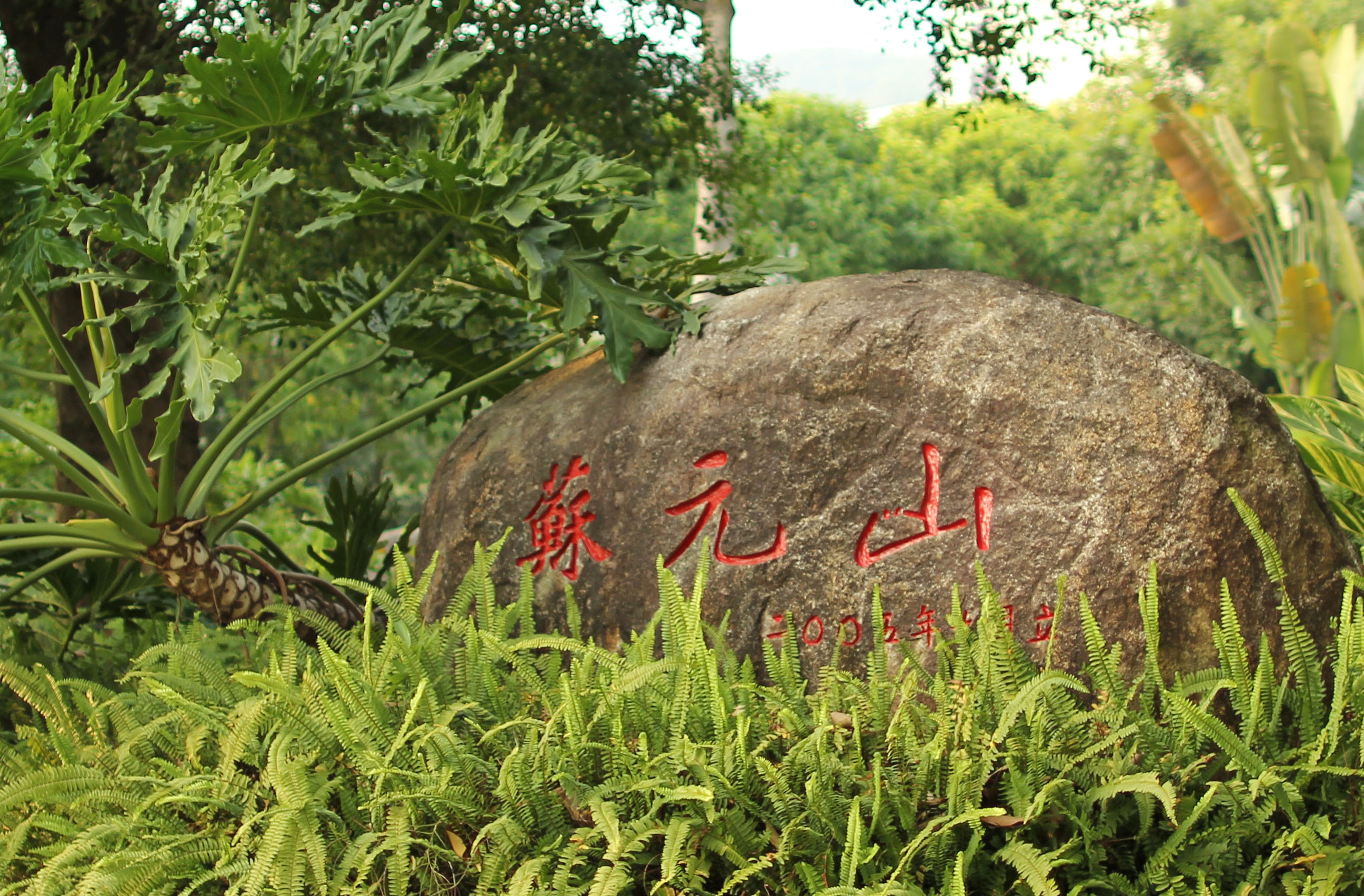 The image of the rock which the name of So Yuen Mountain written on. 粵語: 一嚿寫住「蘇元山」嘅大石，喺廣州黃埔區。